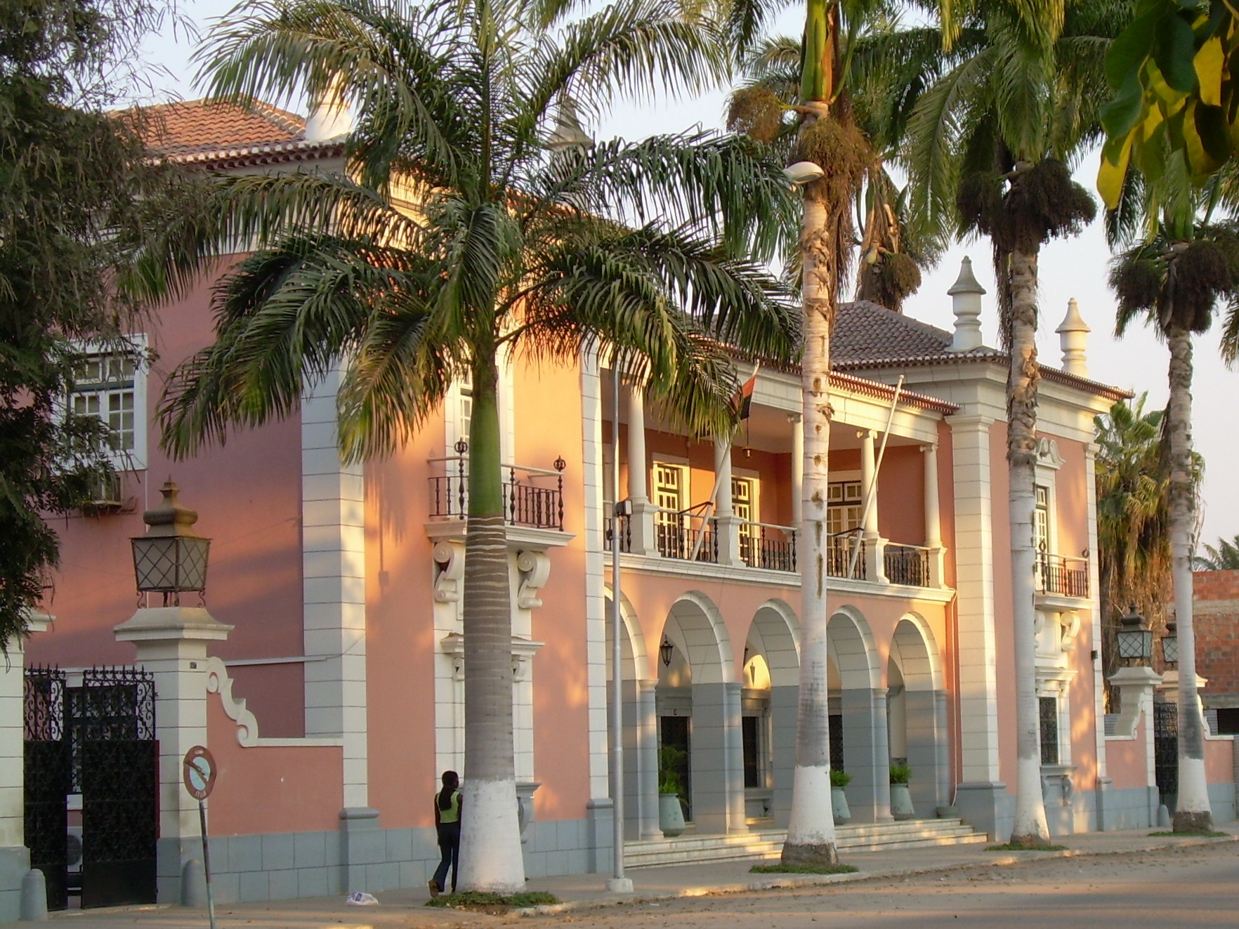 Angola Central Bank, Benguela, Angola